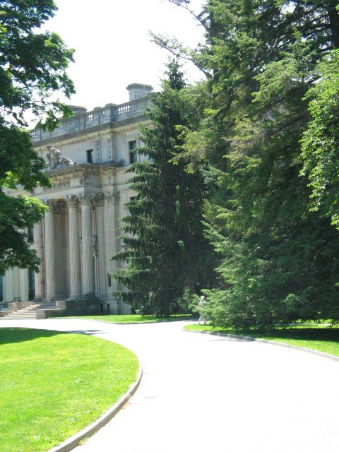 One of Vanderbilt's Mansion of the eastern bank of Hudson River